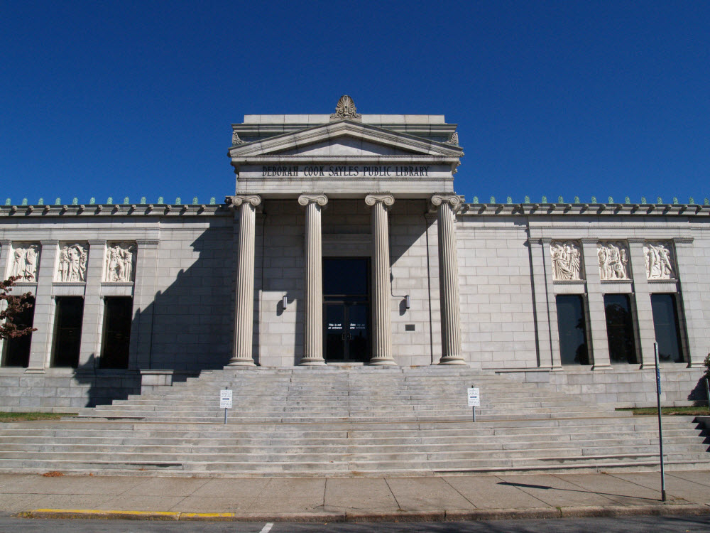 Public Library, Pawtucket, Rhode Island